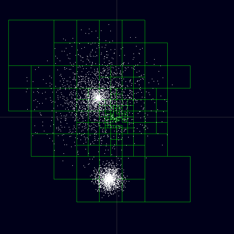 Barnes hut tree for a distribution of 5000 particles. Only the 146 nodes are beeing shown that are used for calculating the force acting on a particle at the point of origin.